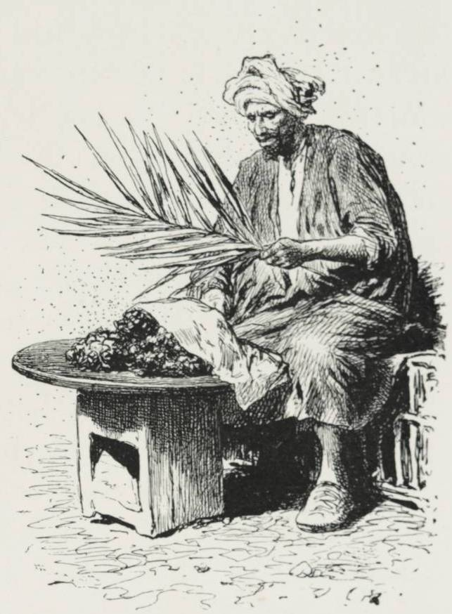 Seller of Date Bread. A man sitting at a low table and selling bread.